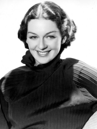 A portrait of Rosalind Russell